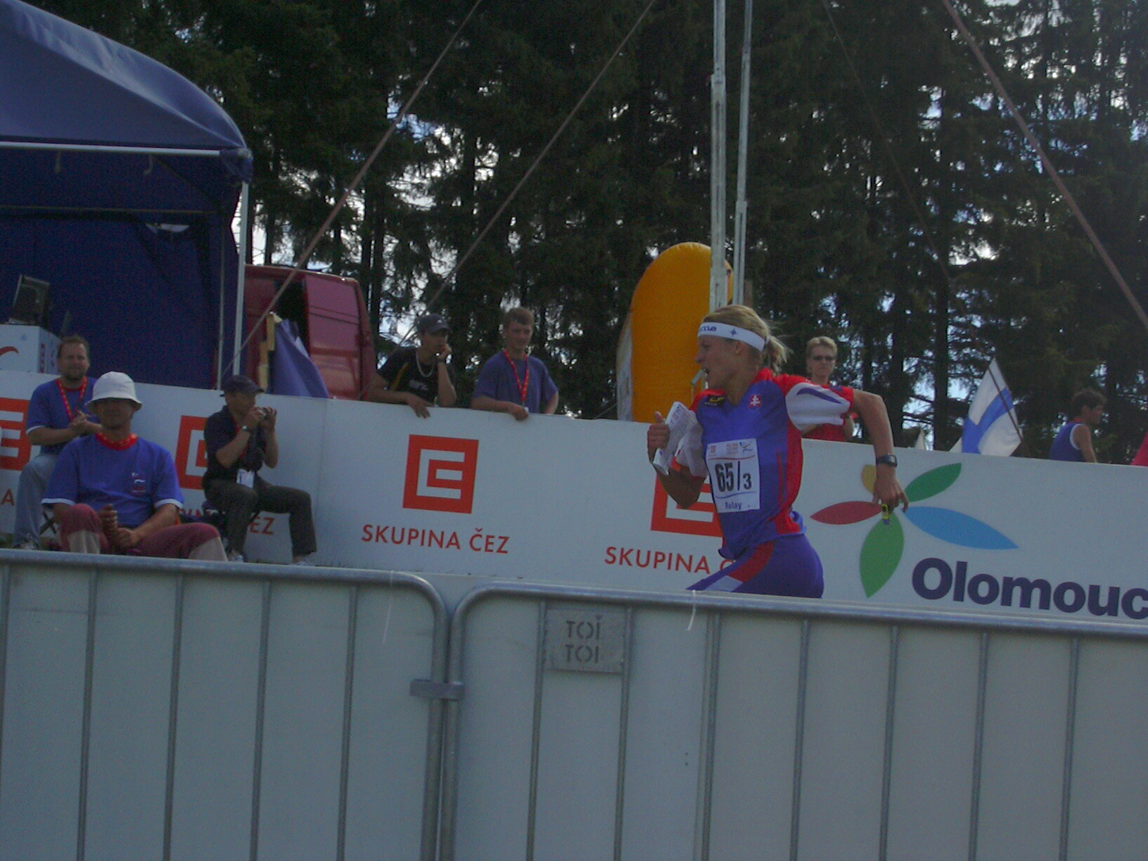 World Orienteering Championships 2008 in Olomouc, Czech Republic. On photo Martina Rákayová.